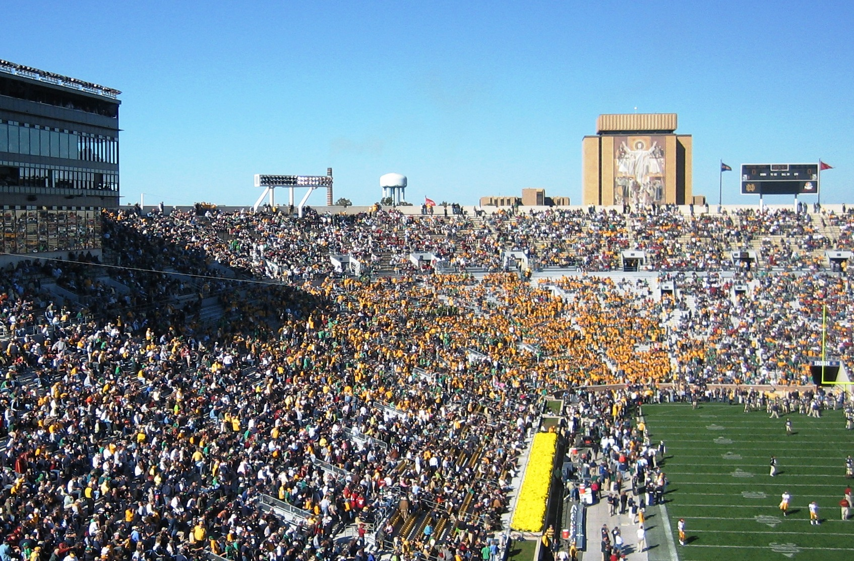 This is a picture I took from the stands during the 2005 Notre Dame vs. USC game. I authorize it's distribution for public use.